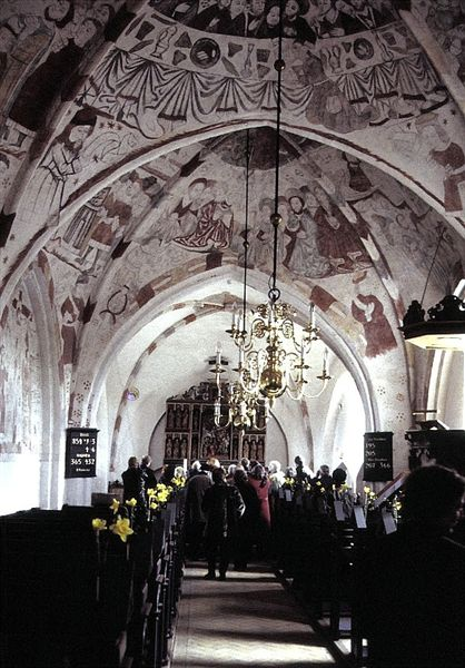 Bellinge Kirke